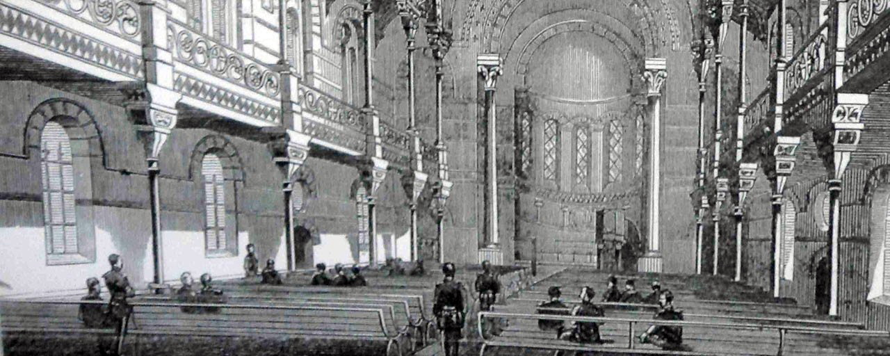 Interior view of St George's Garrison Church, Woolwich, South East London, shortly after its completion in 1863. The drawing appeared in The Illustrated London News.